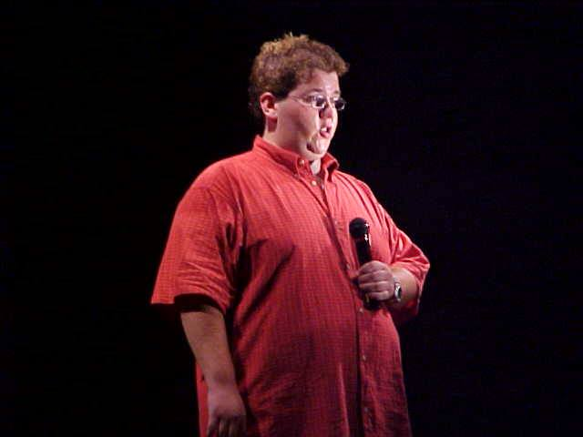 A photograph of Jake Sasseville hosting a variety show for his brother's benefit in 2003 in Maine.